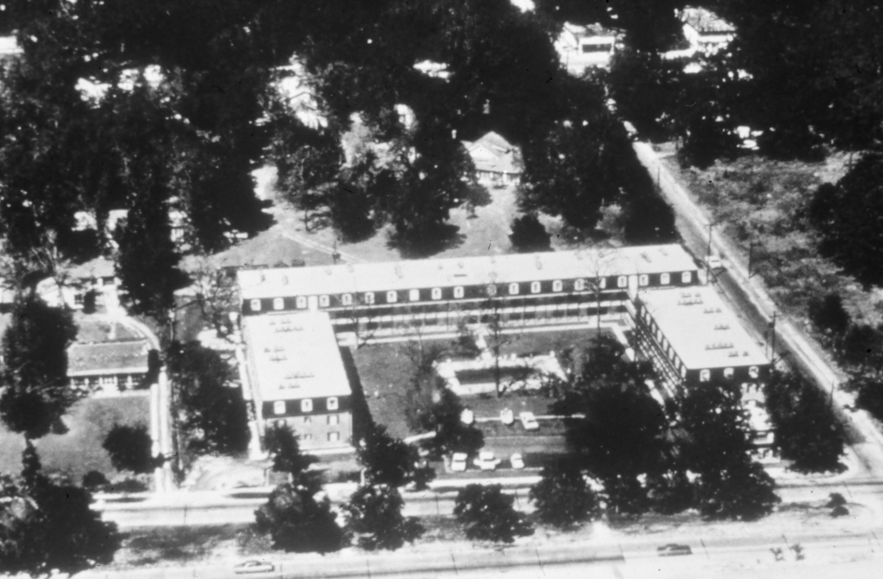 Richelieu Apartments before Hurricane Camille. Substantial appearing building chosen as site of hurricane party.